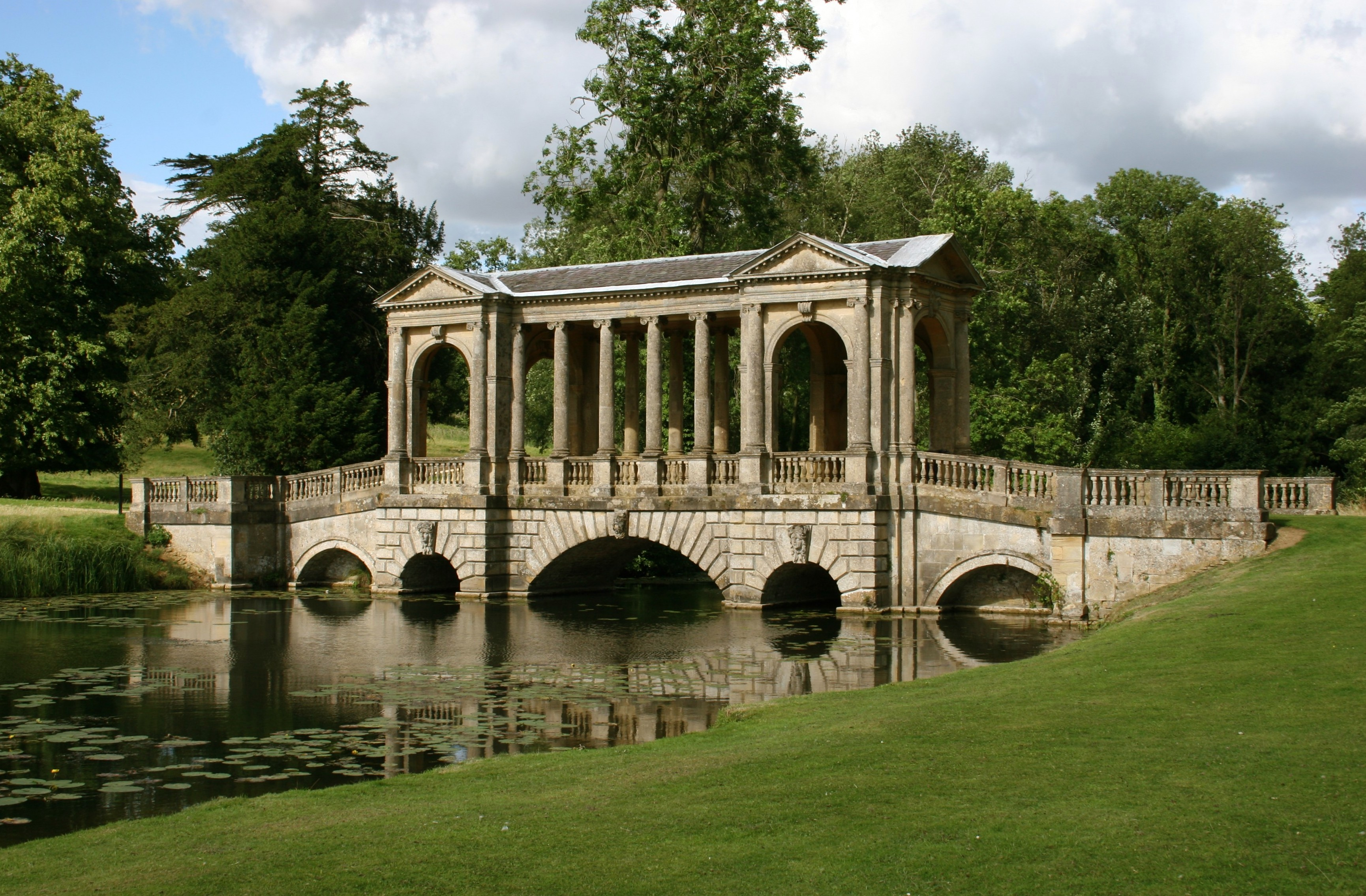 The Palladian Bridge, Prior Park.